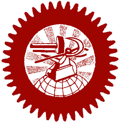 Early logo of the Red International of Labor Unions (aka RILU or Profintern). Additional digital editing by Tim Davenport, no copyright claimed. Scanned image released under Creative Commons Attribution-ShareAlike 3.0.